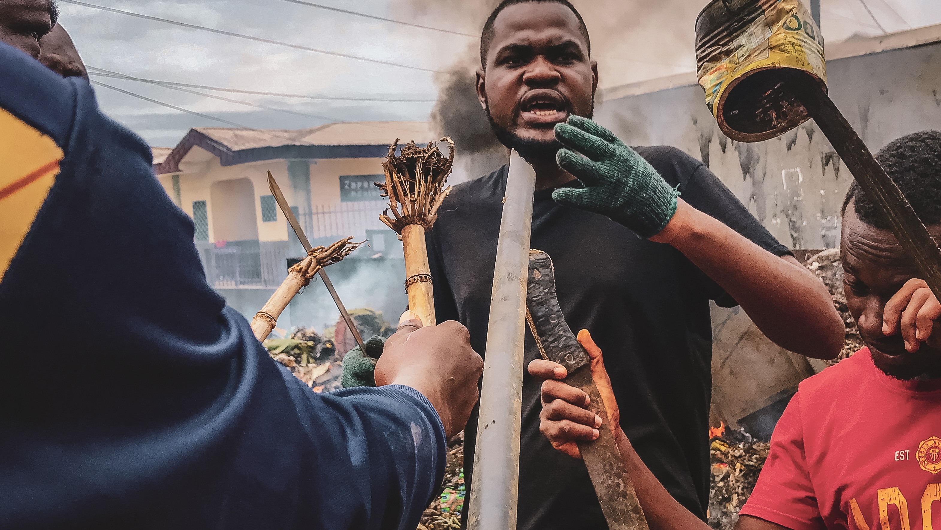 “End of Travail” speech after a cleanup campaign. This is an image with the theme "Africa on the Move or Transport" from: Cameroon